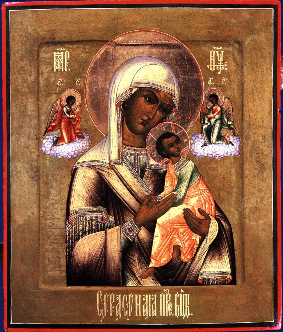 Strastnaya (of Passion) Icon of vigin Mary. Name - because of two angels with Instruments of the Passion in hands